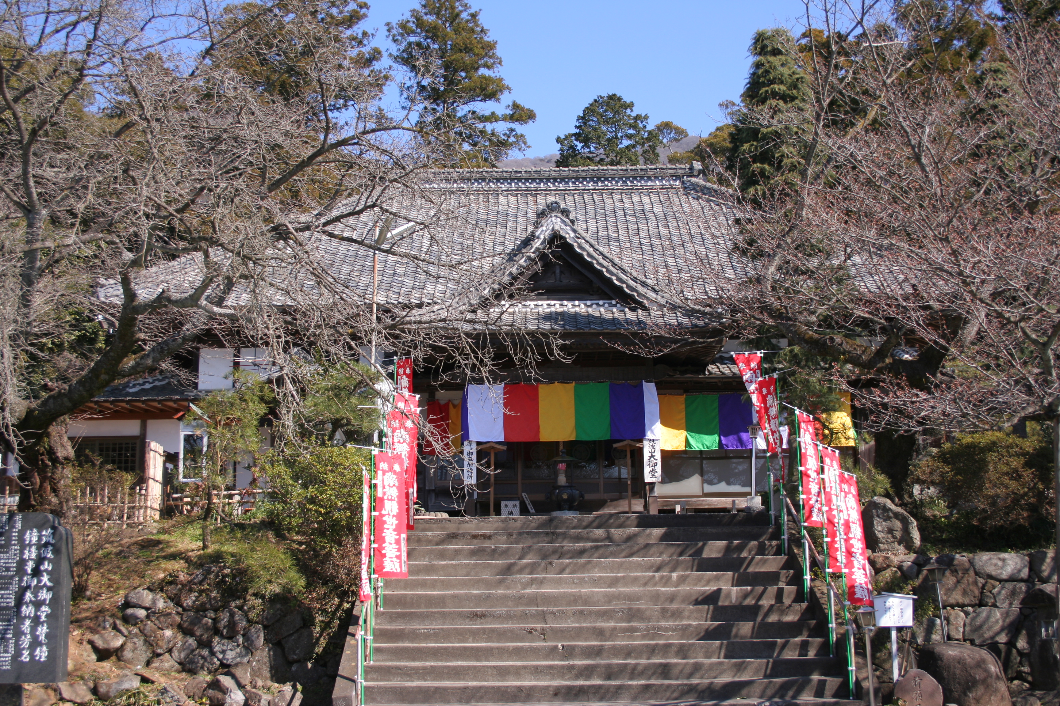 Former Main hall of Ōmi-dō temple in Tsukuba, Ibaraki